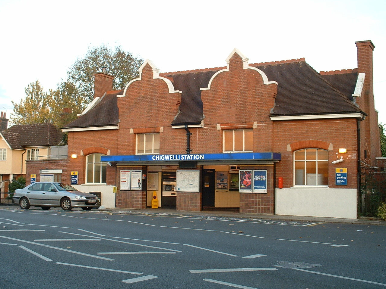 Chigwell tube station building, opened in 1903 by the Great Eastern Railway